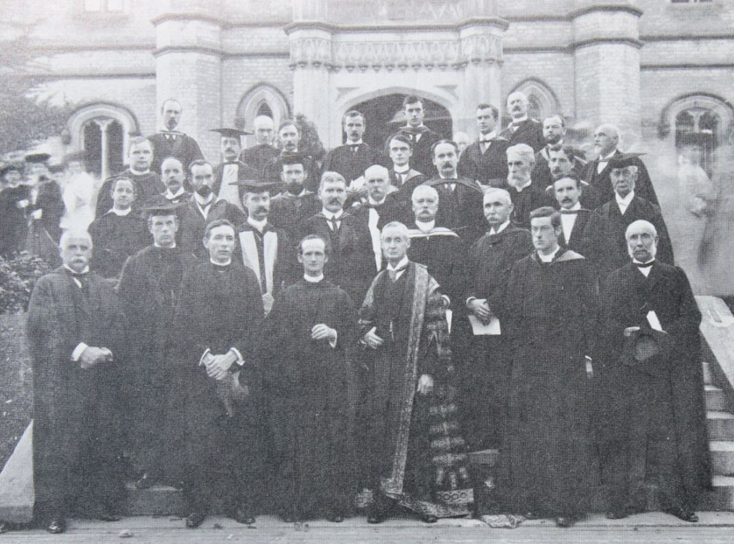 The last graduating class of Trinity College, Toronto, in subjects other than Divinity